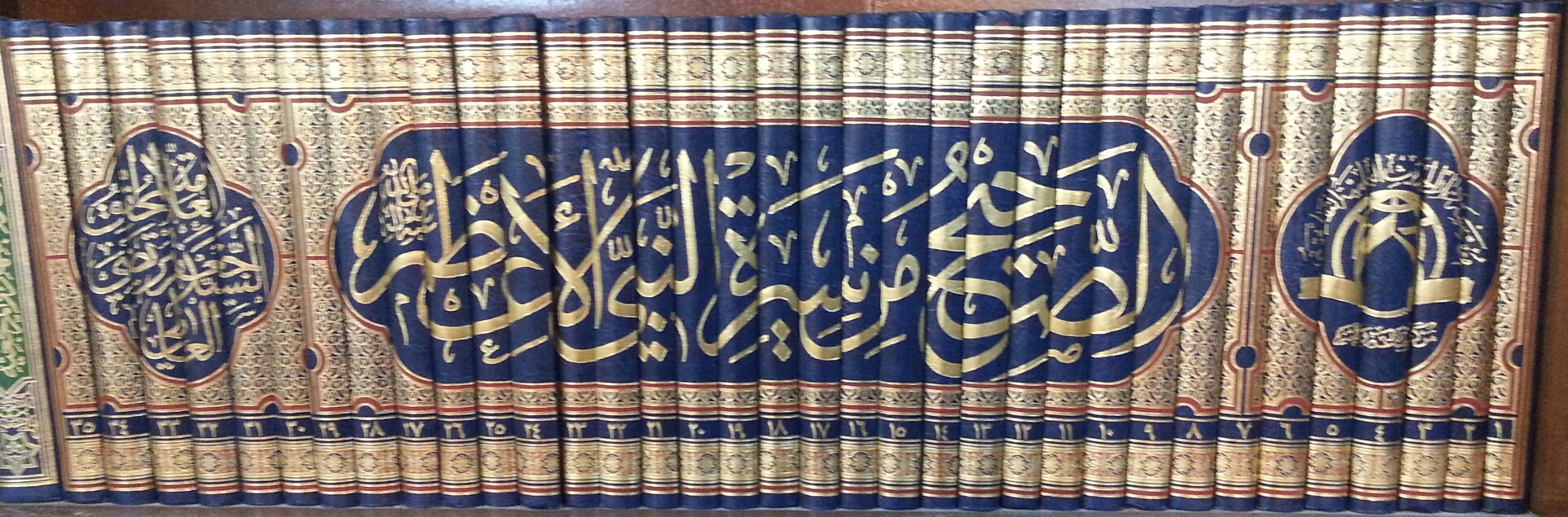 The covers for the book " Al-Saheeh min sirat al-naby al-a'azam"